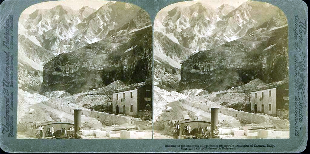 Underwood & Underwood - "Railway to quarries. Carrara, Italy". Stereo card, © 1902.